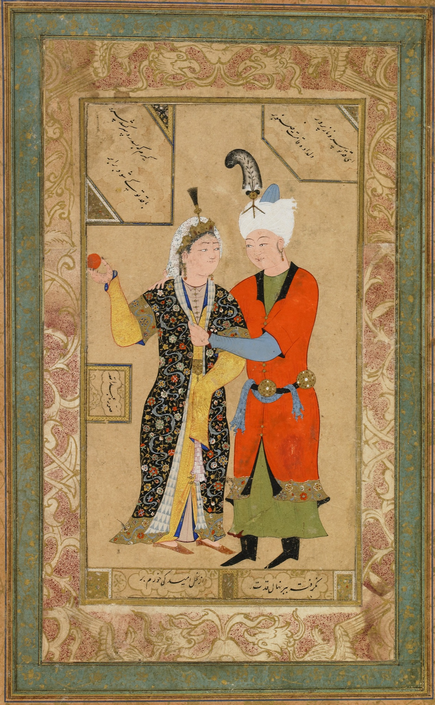 S1986.301 Signed by Abdullah, A prince and princess embrace, Bukhara, ca. 1550, Freer & Sackler